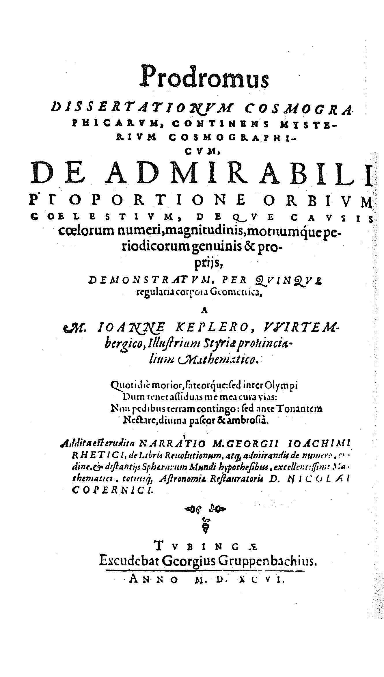 Cover of the first edition of Mystervm Cosmographicvm by Johannes Kepler